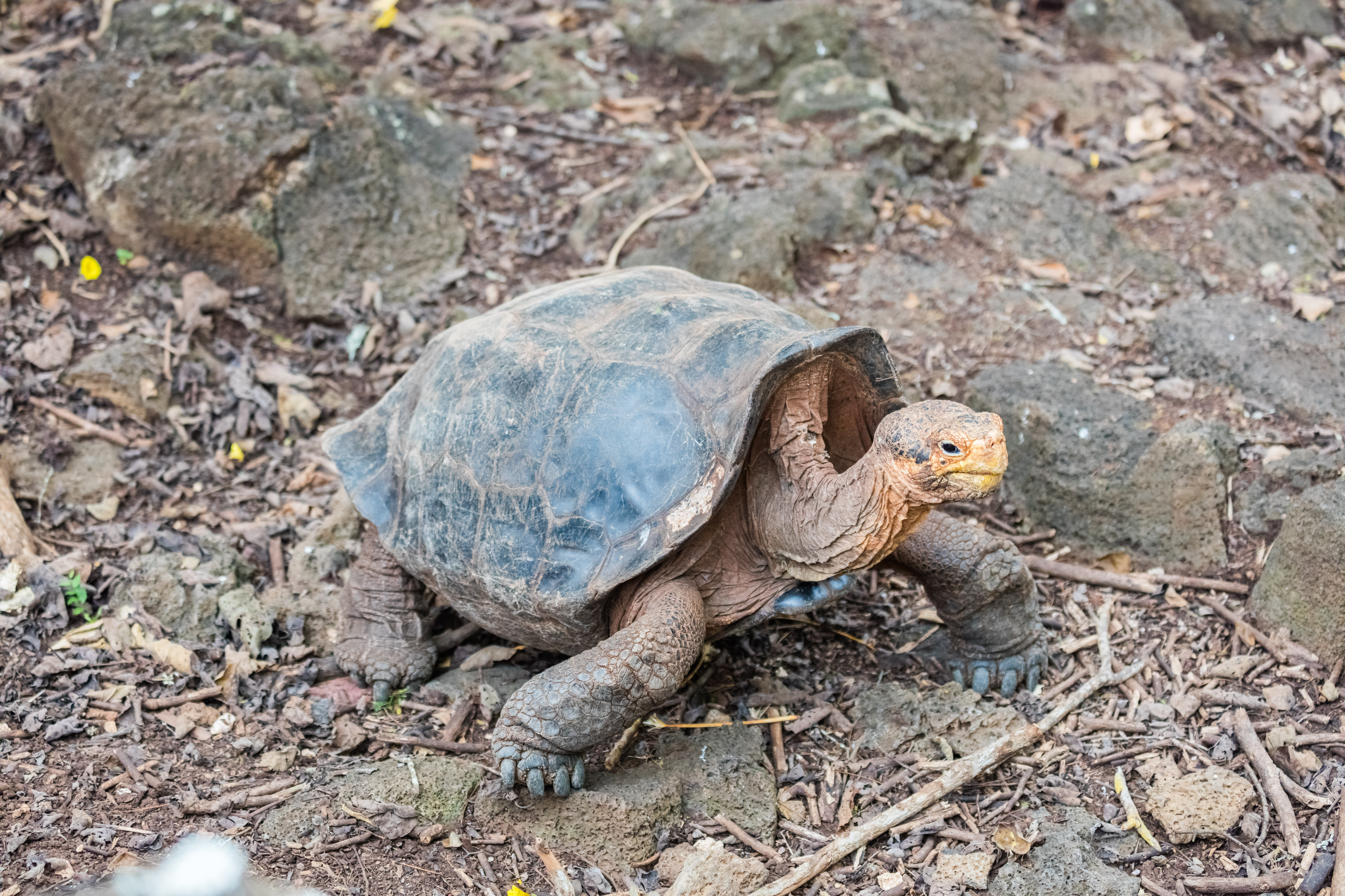 San Cristobal Island Galapagos tortoise (Chelonoidis chathamensis), Santa Cruz Island, Galapagos Islands, Ecuador